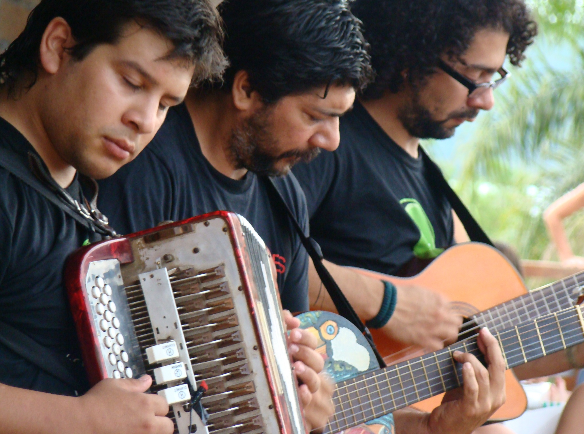 Joselo Schuap is a composer and singer from Oberá, Argentina. Today is consider the most popular Troubadour of the province of Misiones.